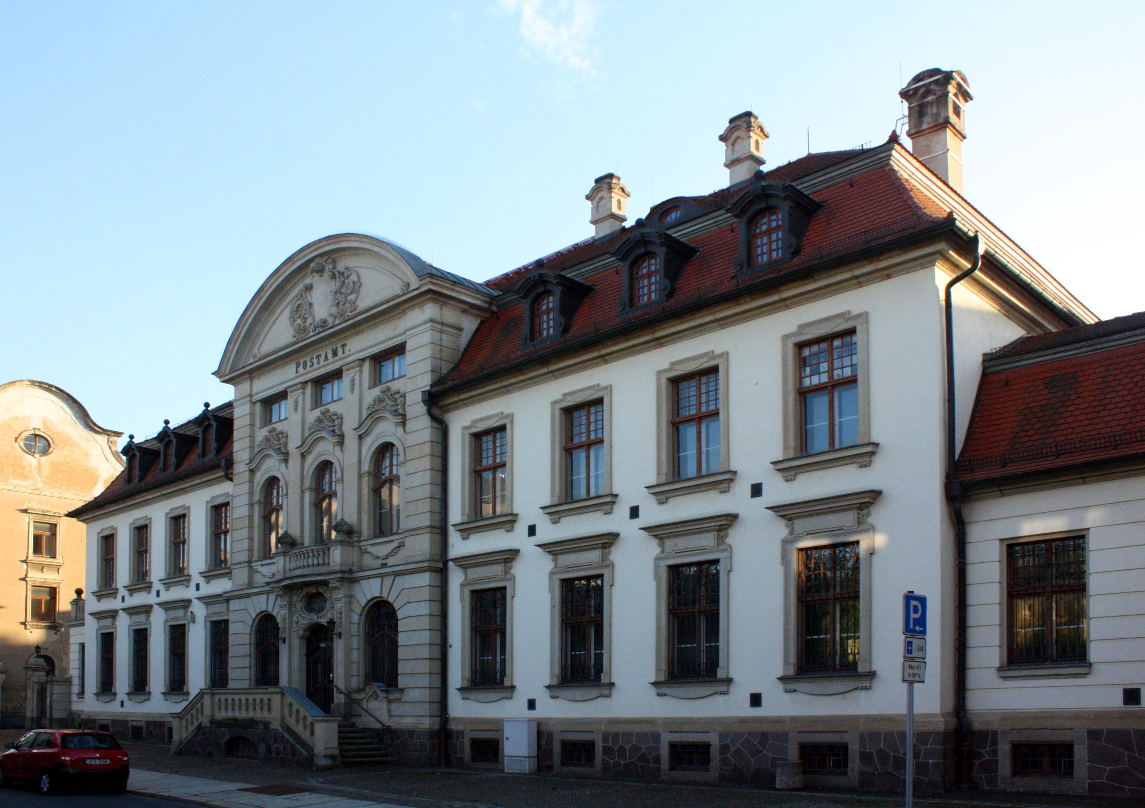 Old post office in Meerane/Saxony